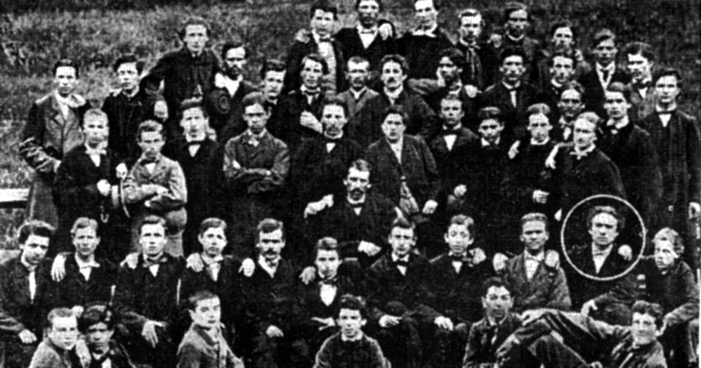 1864 graduates of Cernăuţi gymnasium. The young boy encircled could be Mihai Eminescu.